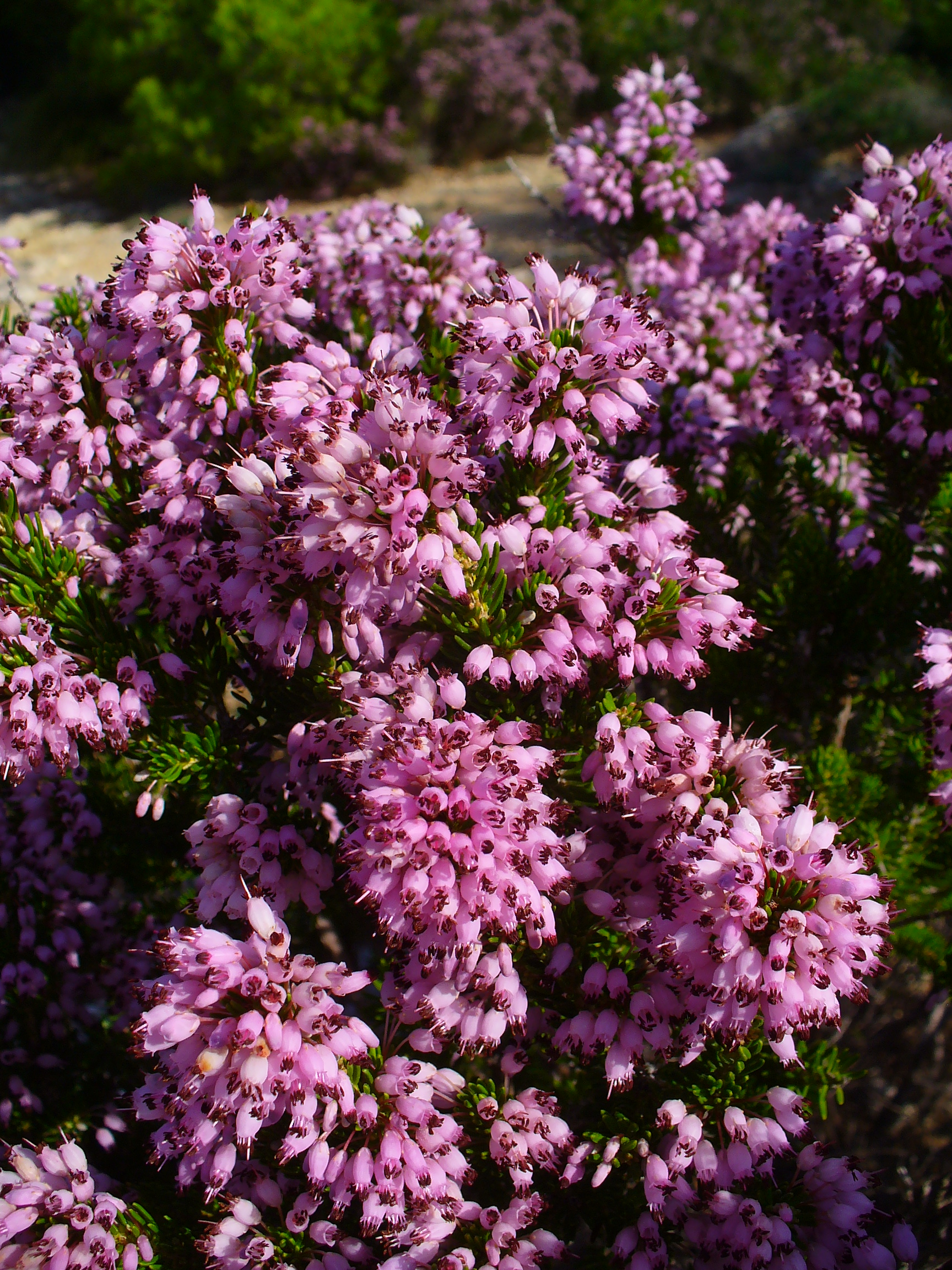 Mediterranean Heath; habitus; Punta de Capdepera, Majorca, Spain.